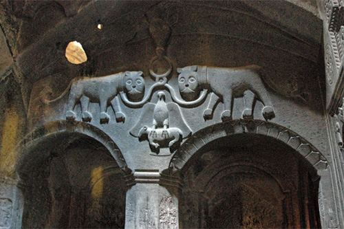 Geghard monastery, Armenia